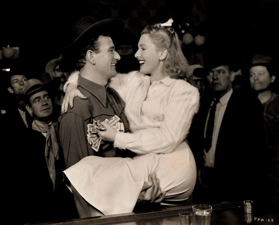 John Wayne and Jean Arthur in A Lady Takes a Chance (1943) - publicity still (original image damaged, modified and cropped : see source)